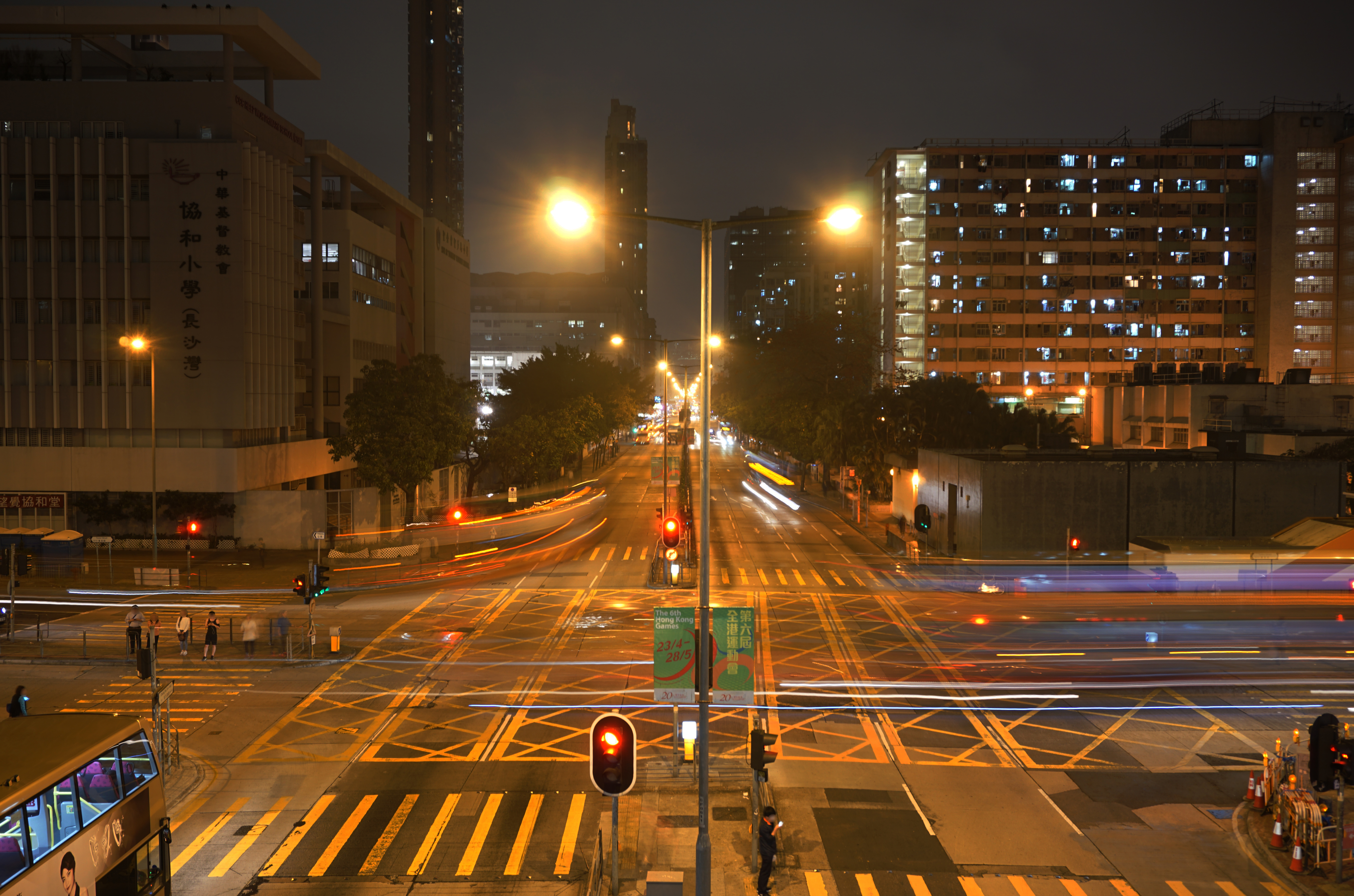 Cheung Sha Wan Road in Cheung Sha Wan, Hong Kong.